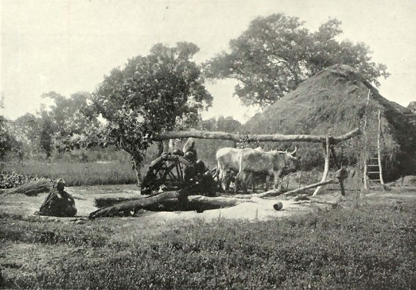 A method of irrigation frequently met within various parts of India.